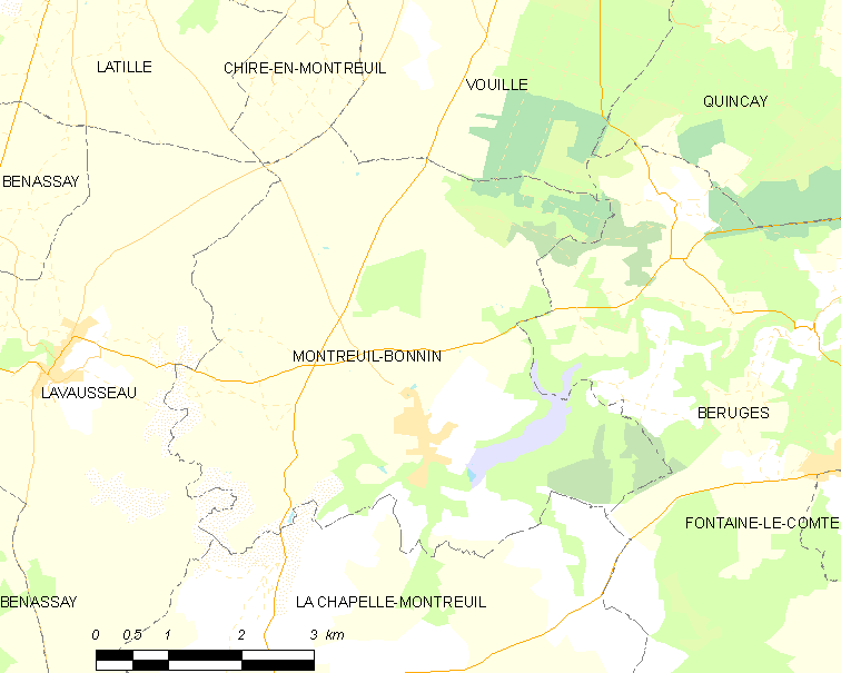 Map of French municipality Montreuil-Bonnin